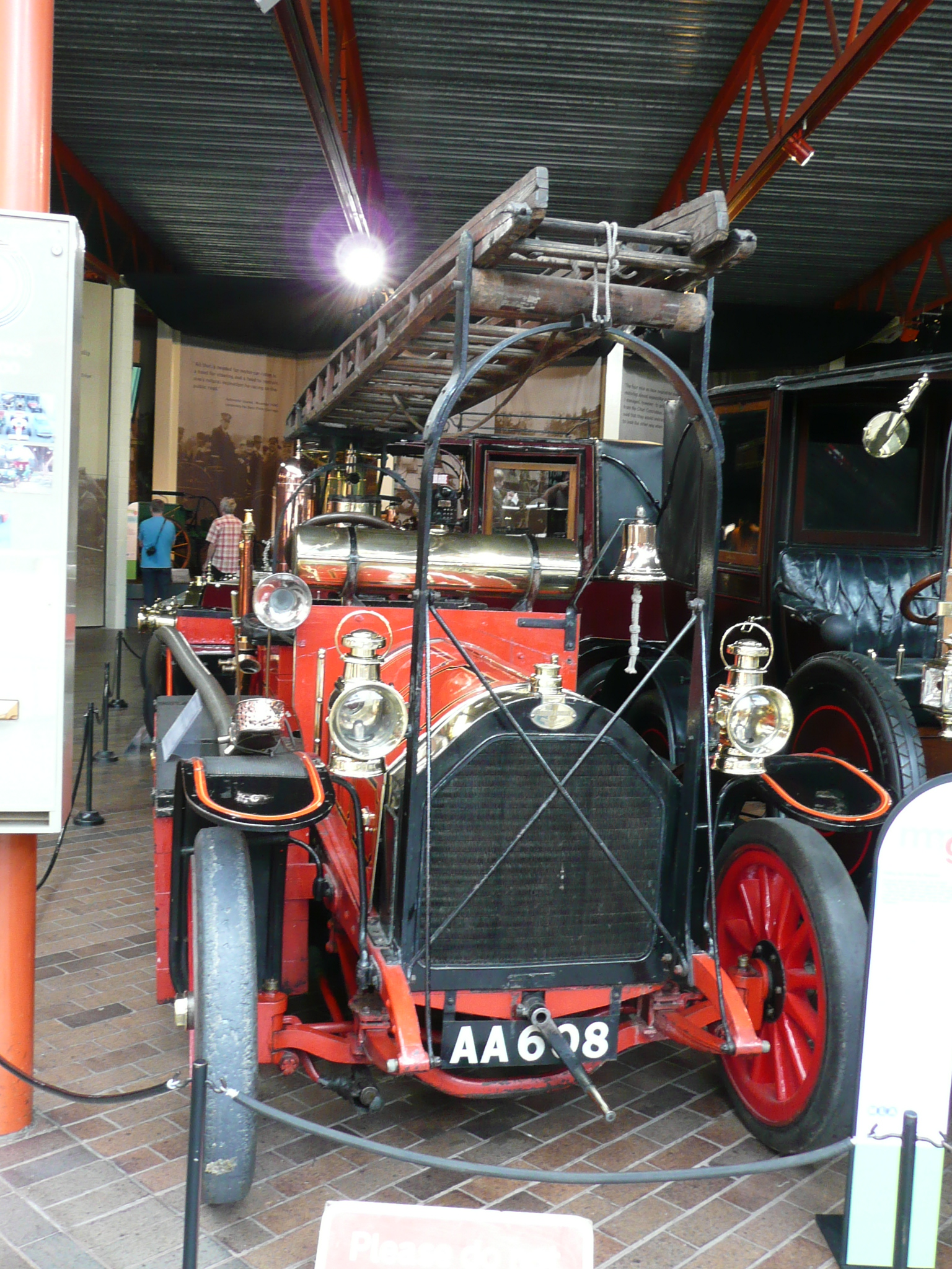 1907 Gobron Brillie Fire Engine, National Motor Museum in Beaulieu.